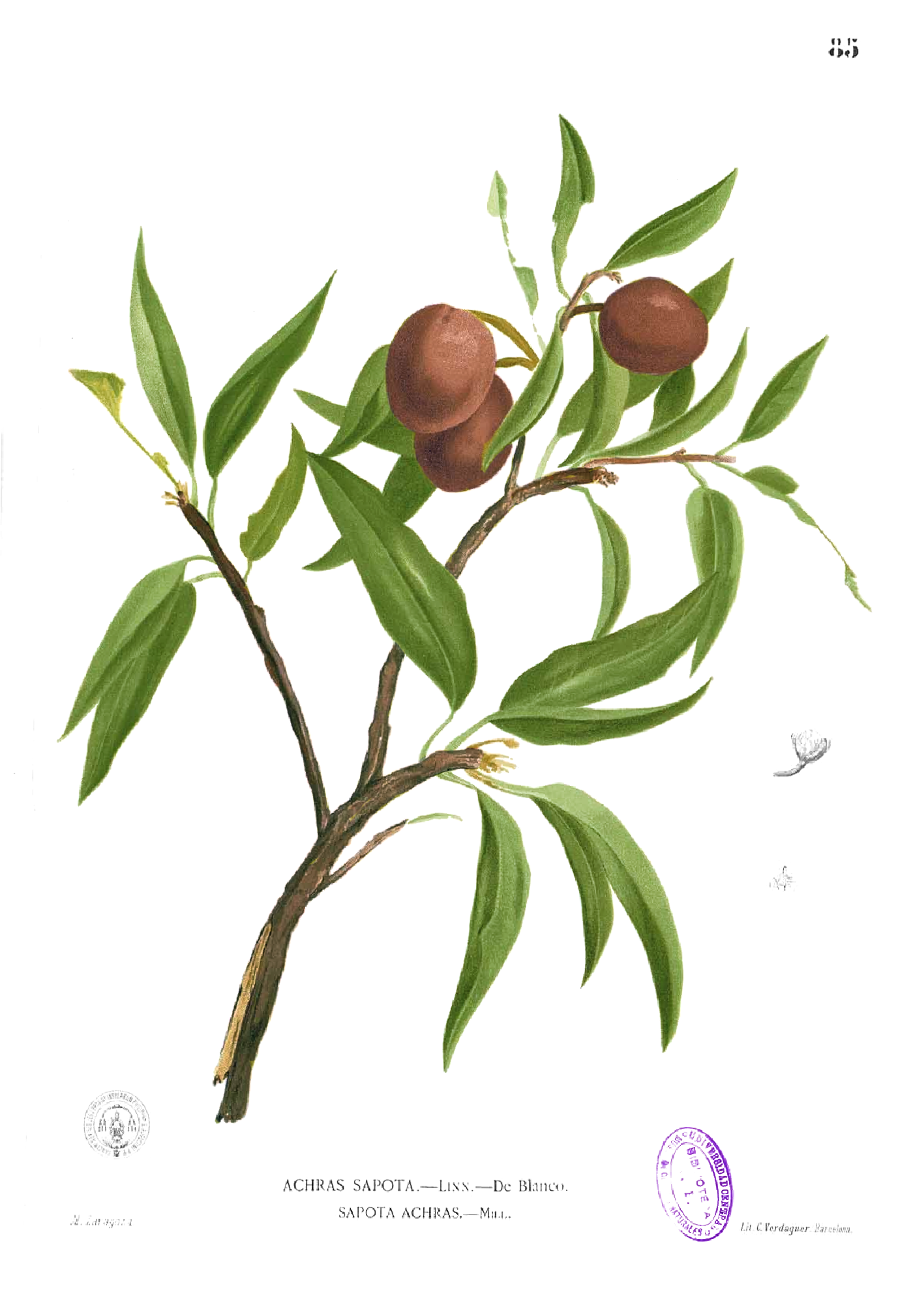 Plate from book